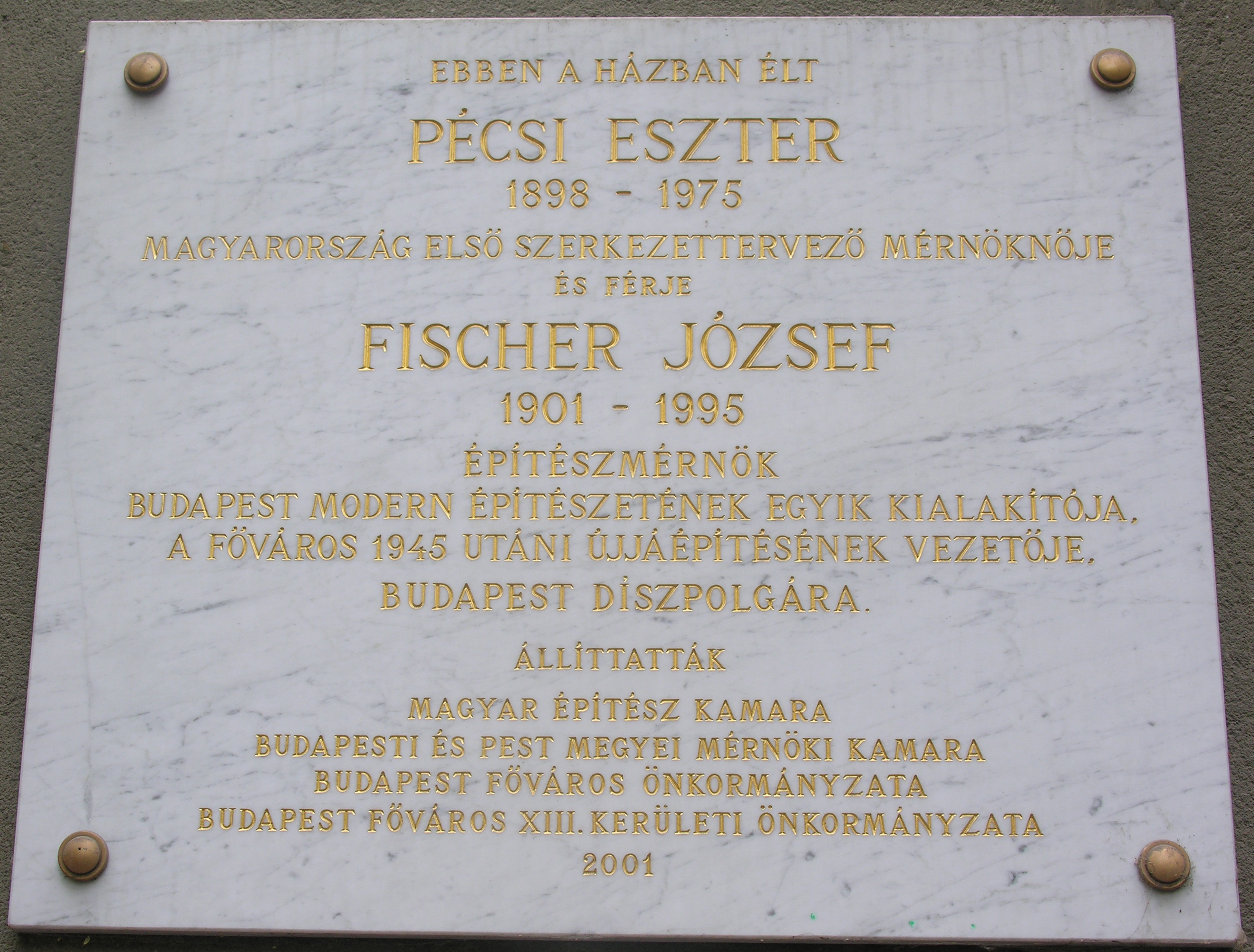 Commemorative plaque of Eszter Pécsi and the architect József Fischer in Budapest District XIII, Szent István Park No 16